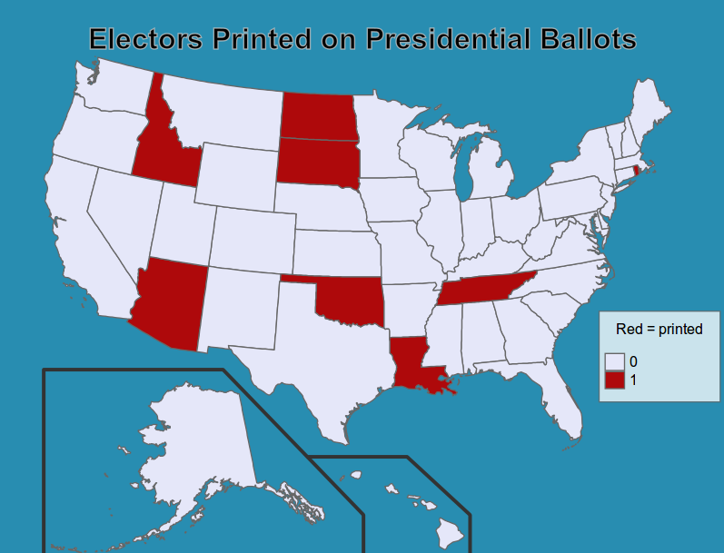 The eight states where the electors' names are printed on the presidential ballots.